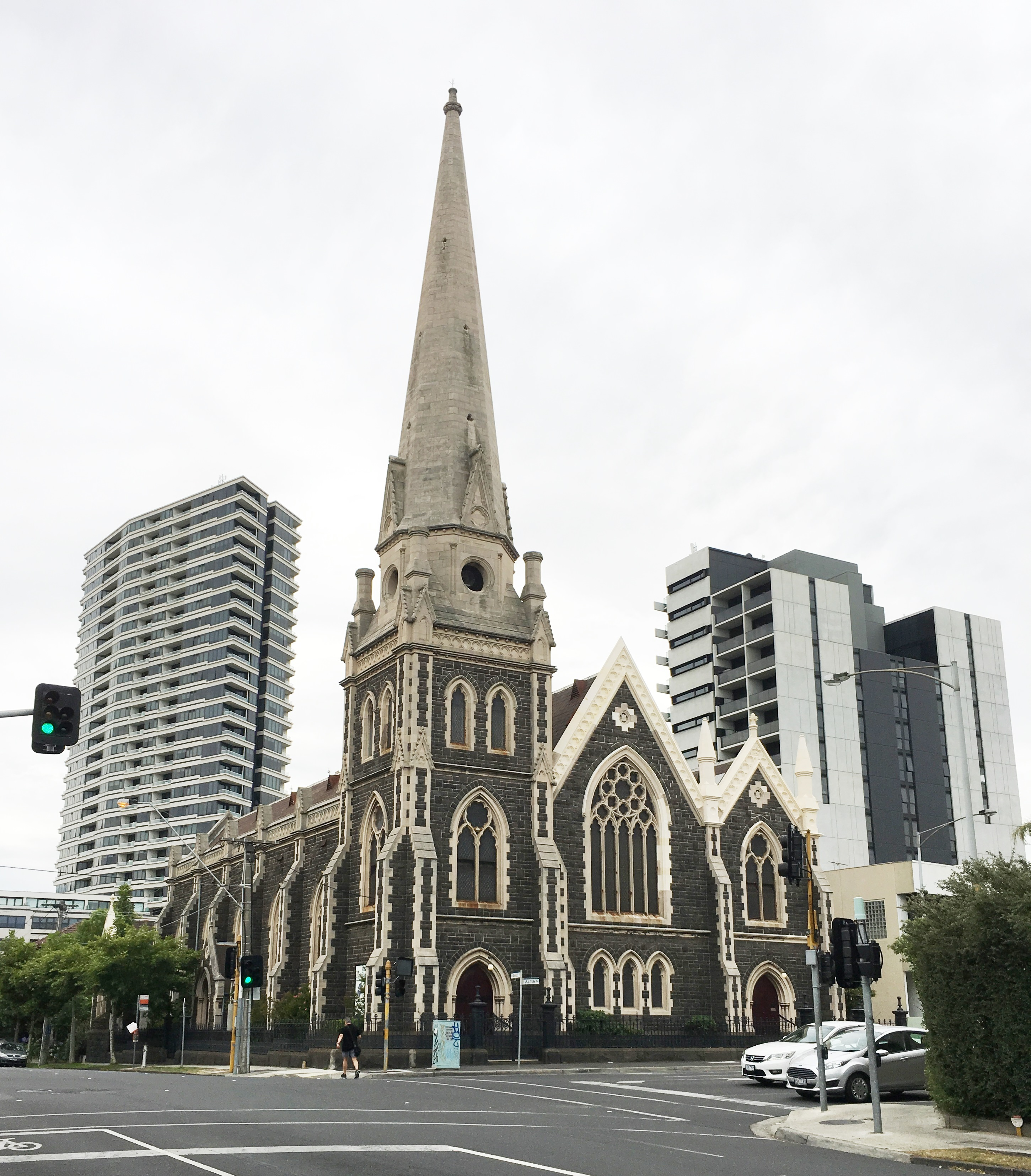 St Kilda Presbyterian Church, 1883, architect John Beswicke